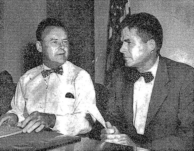 Photograph of Wage Board Director Roger Putnam and Chairman Archibald Cox